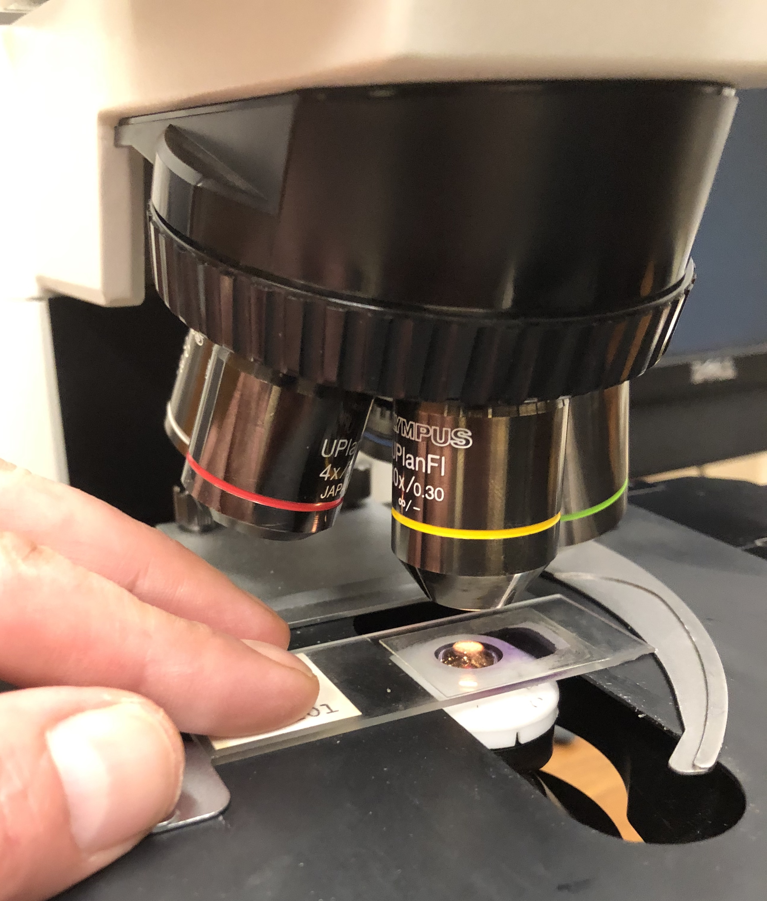 Slide on a microscope stage